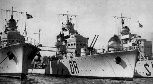 Italian destroyers Strale, Dardo, Saetta at base 1932